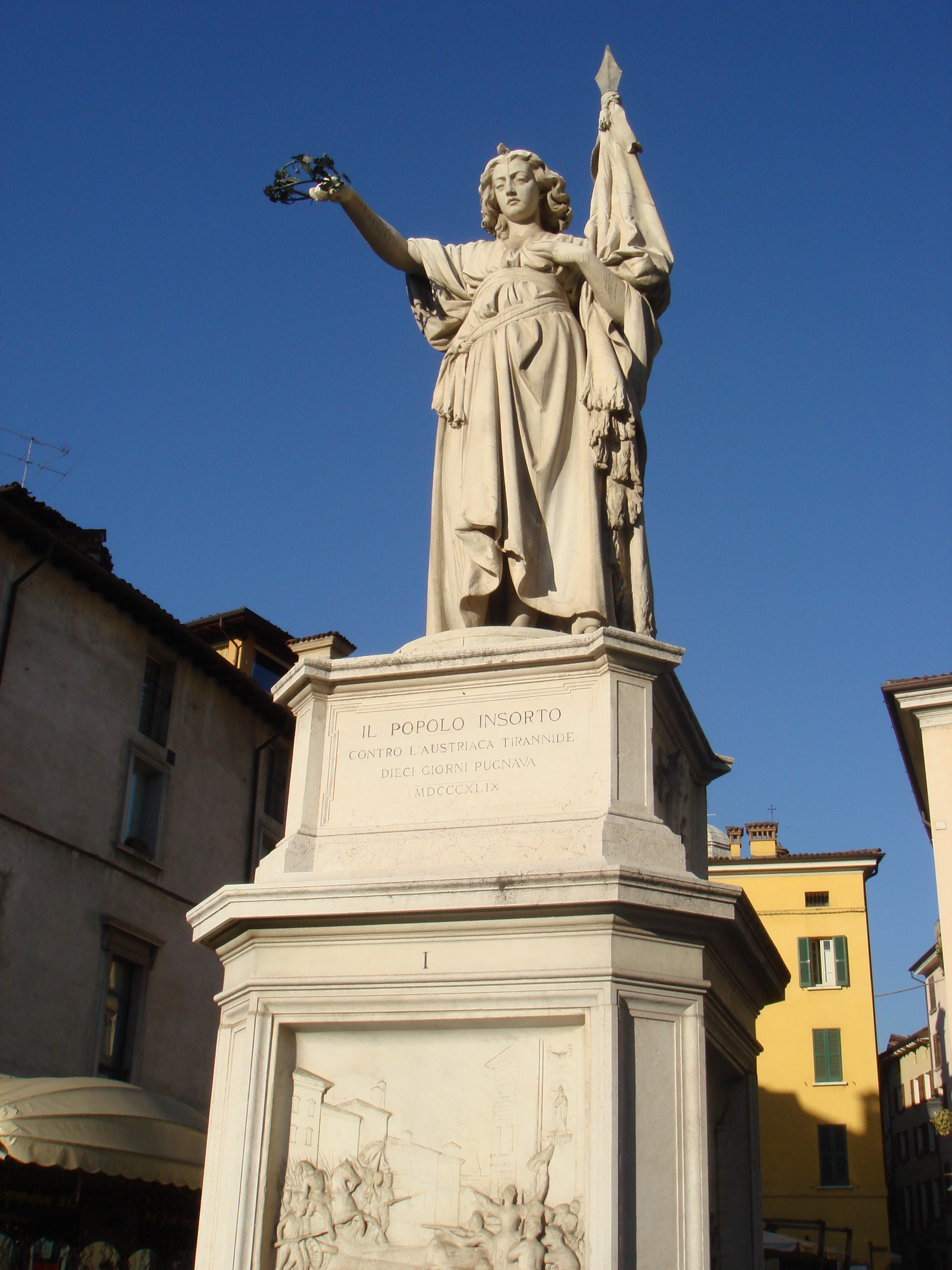 Italy. Allegory from the Monument to the fallen during the Ten Days of Brescia], in Brescia, by Giovanni Battista Lombardi (1864). Picture by Stefano Bolognini.